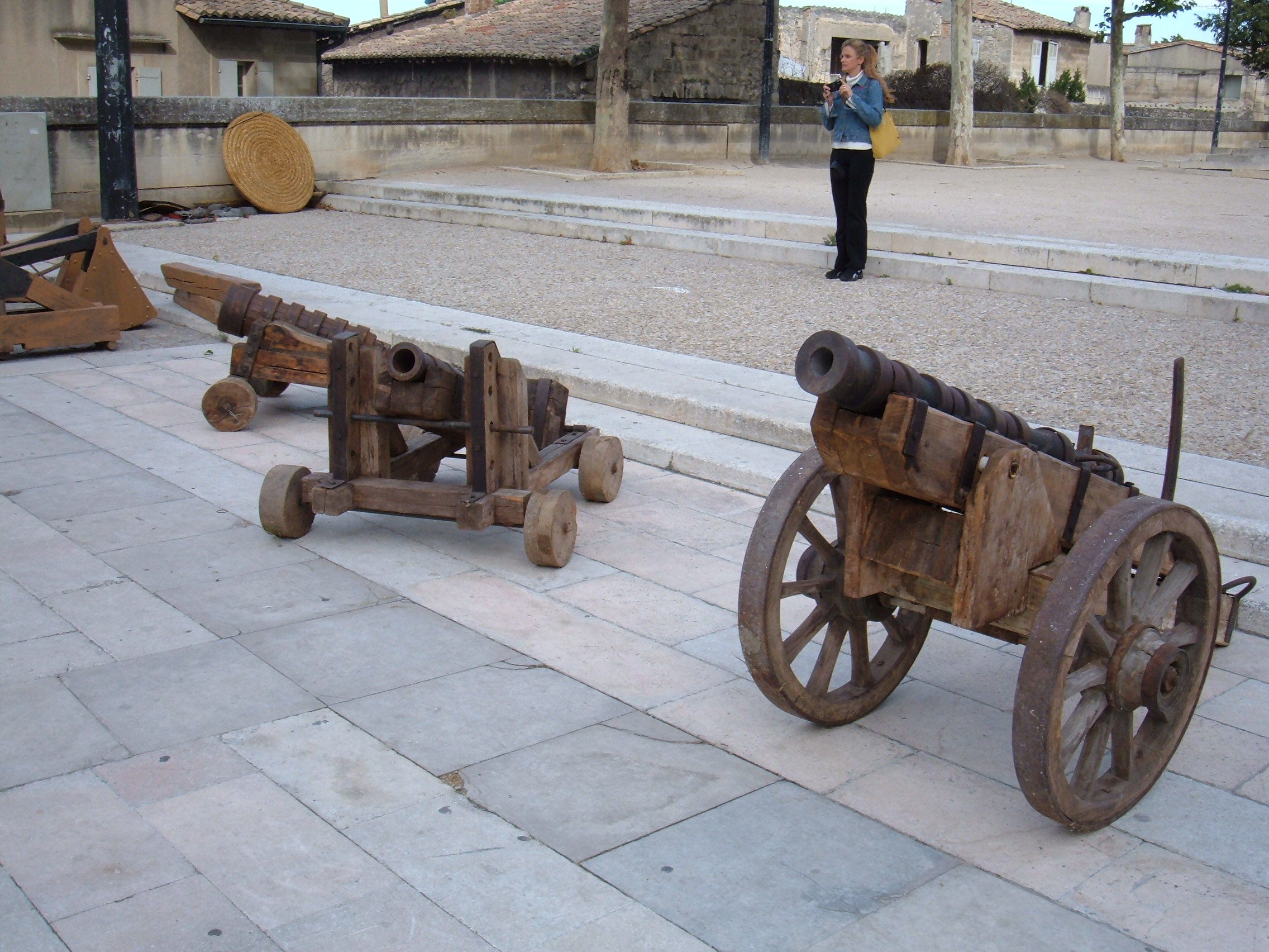 Medieval cannon located in the same courtyard as the Palais des Papes in Avignon, France.